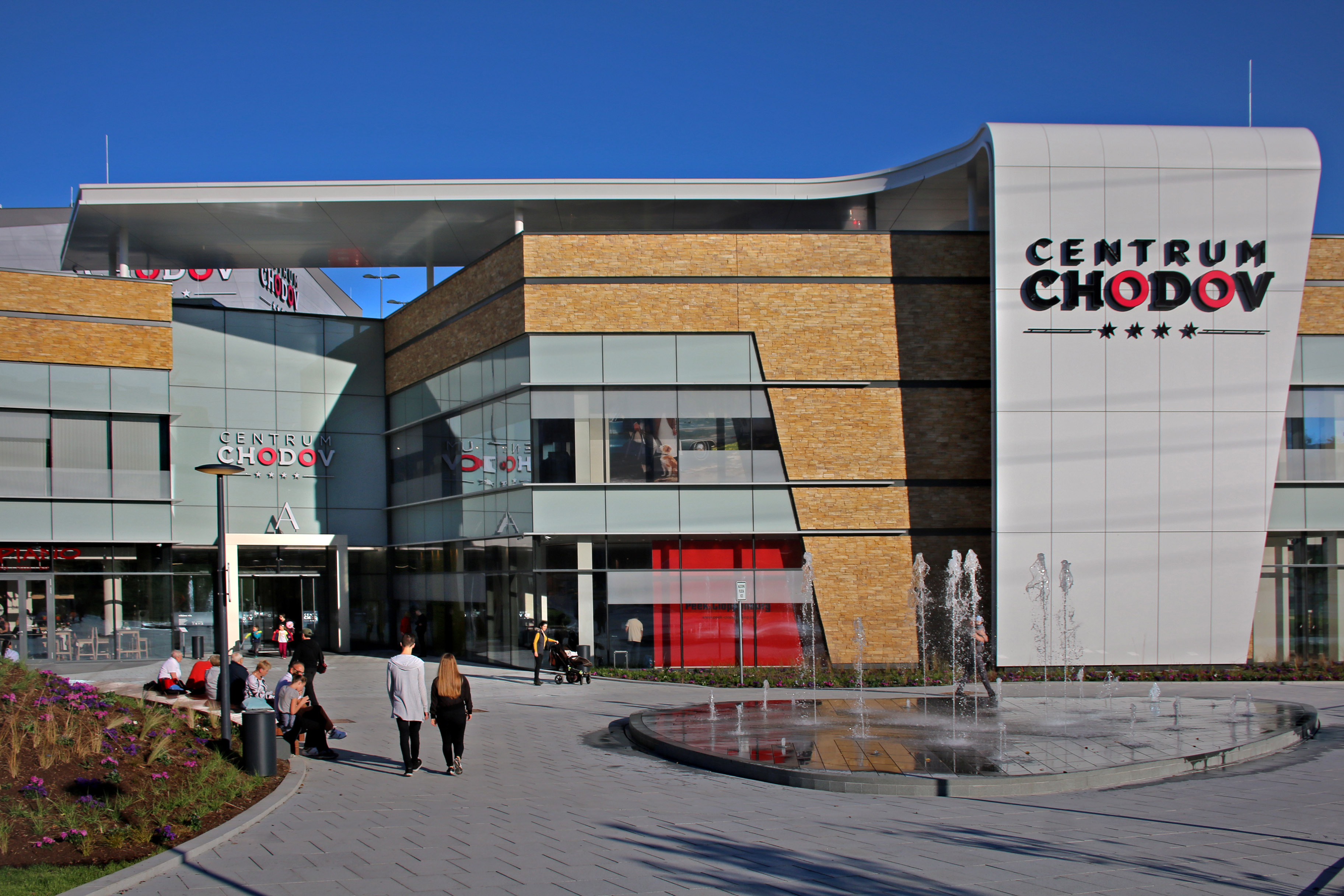 Shopping center Chodov, Prague, A entry